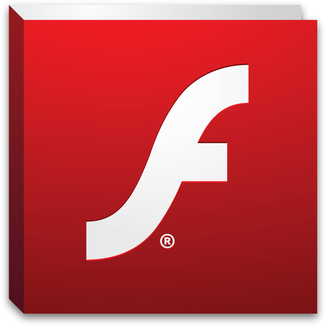 Logo for Adobe Flash Player